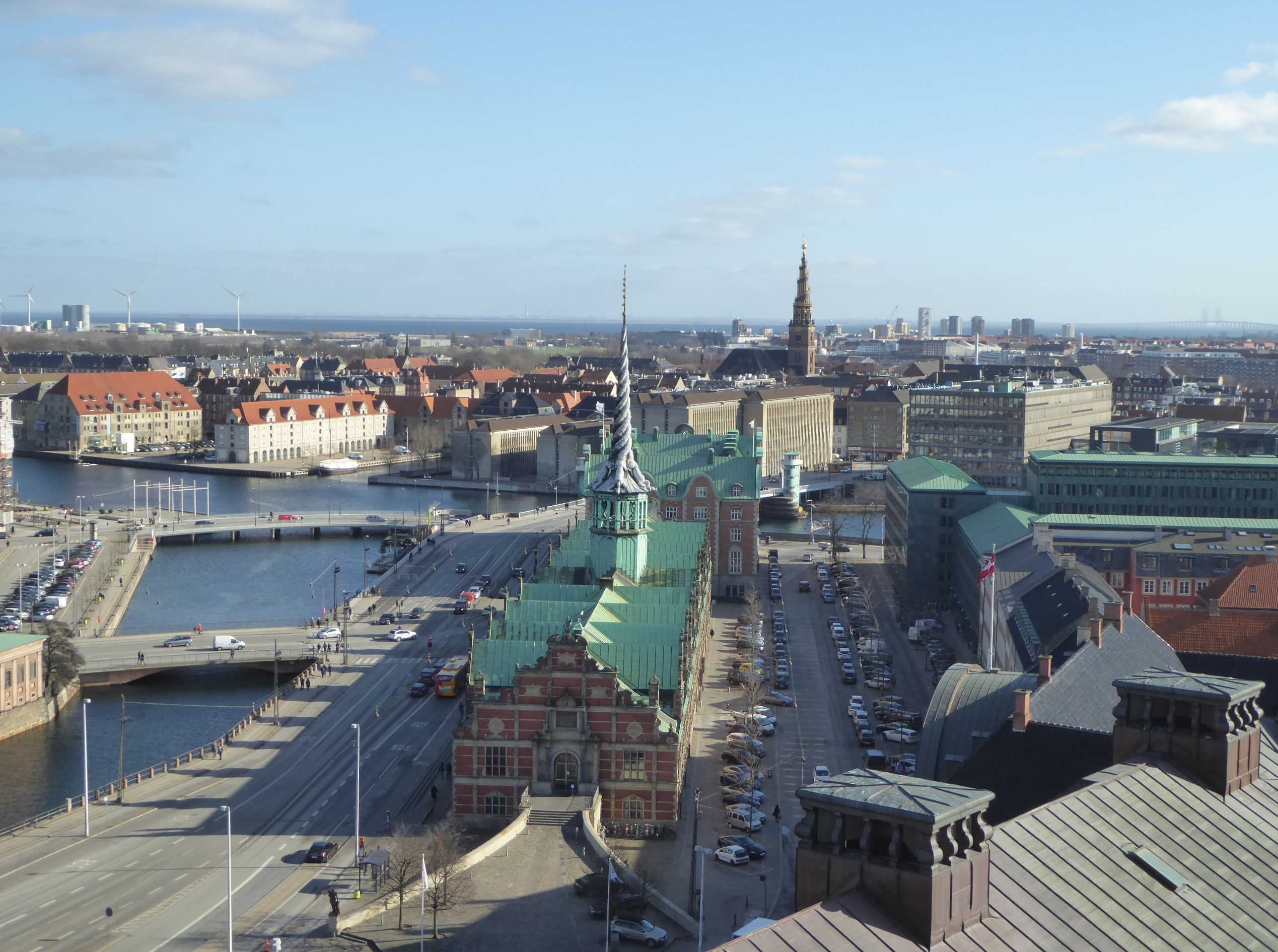 View against southeast from the tower of Christiansborg Palace in Copenhagen. Slotsholmskanalen, Børsen and Slotsholmsgade with Christianshavn in the background.